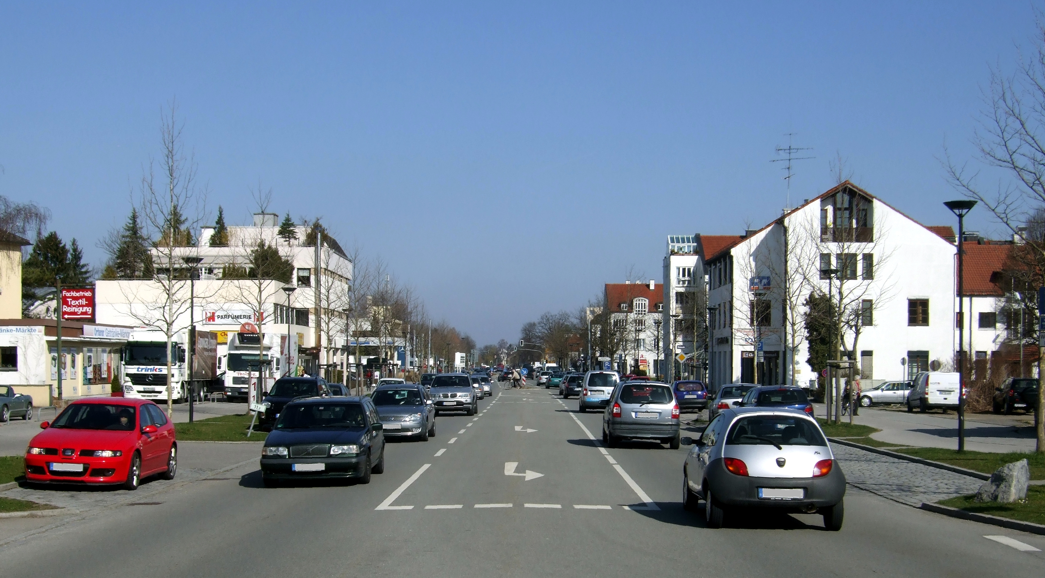 Ottobrunn: Rosenheimer Landstraße (between Hubertusstraße and Dianastraße, close to the municipality centre; view from south)